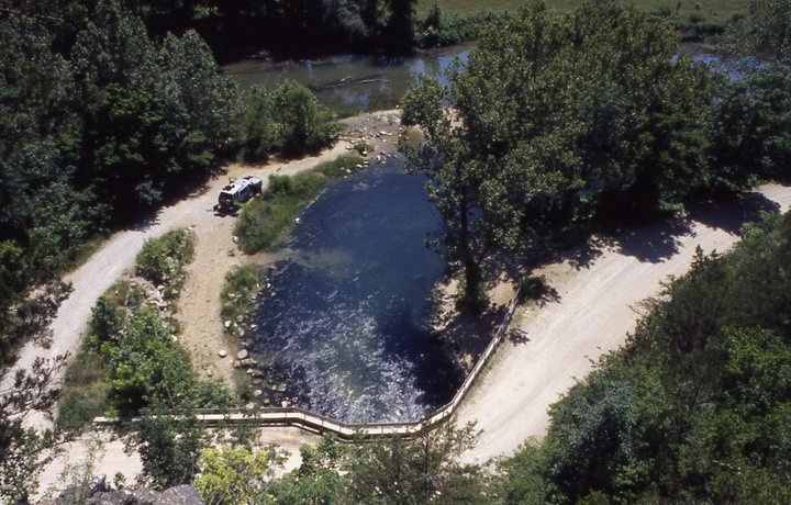 view from above Roubidoux Spring, a karst spring in The Ozarks, Missouri.